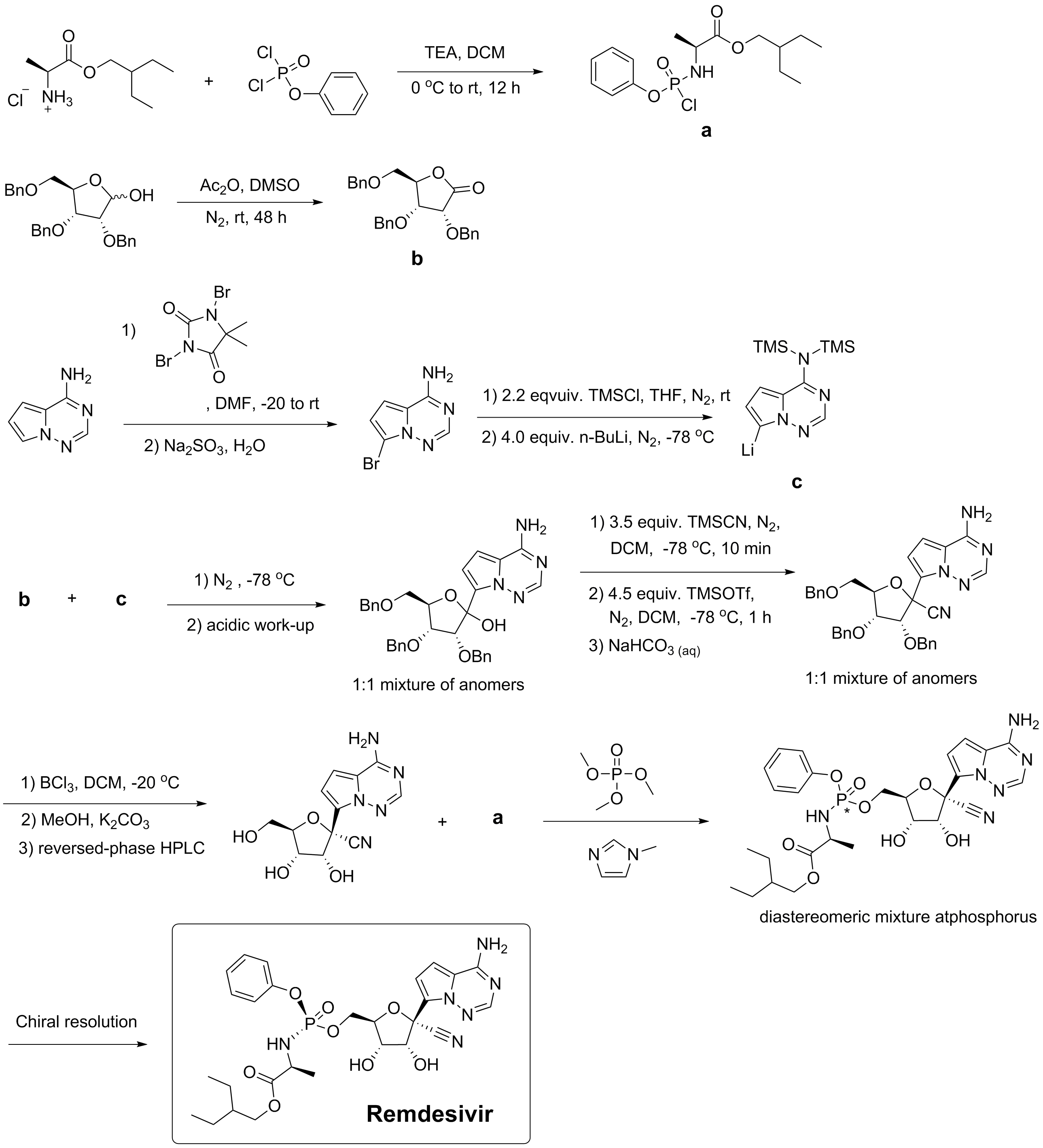 The synthesis of Remdesivir was invented by Byoung Kwon Chun et al. from Gilead Sciences, Inc. and claimed in the patent, WO2016069826A1.